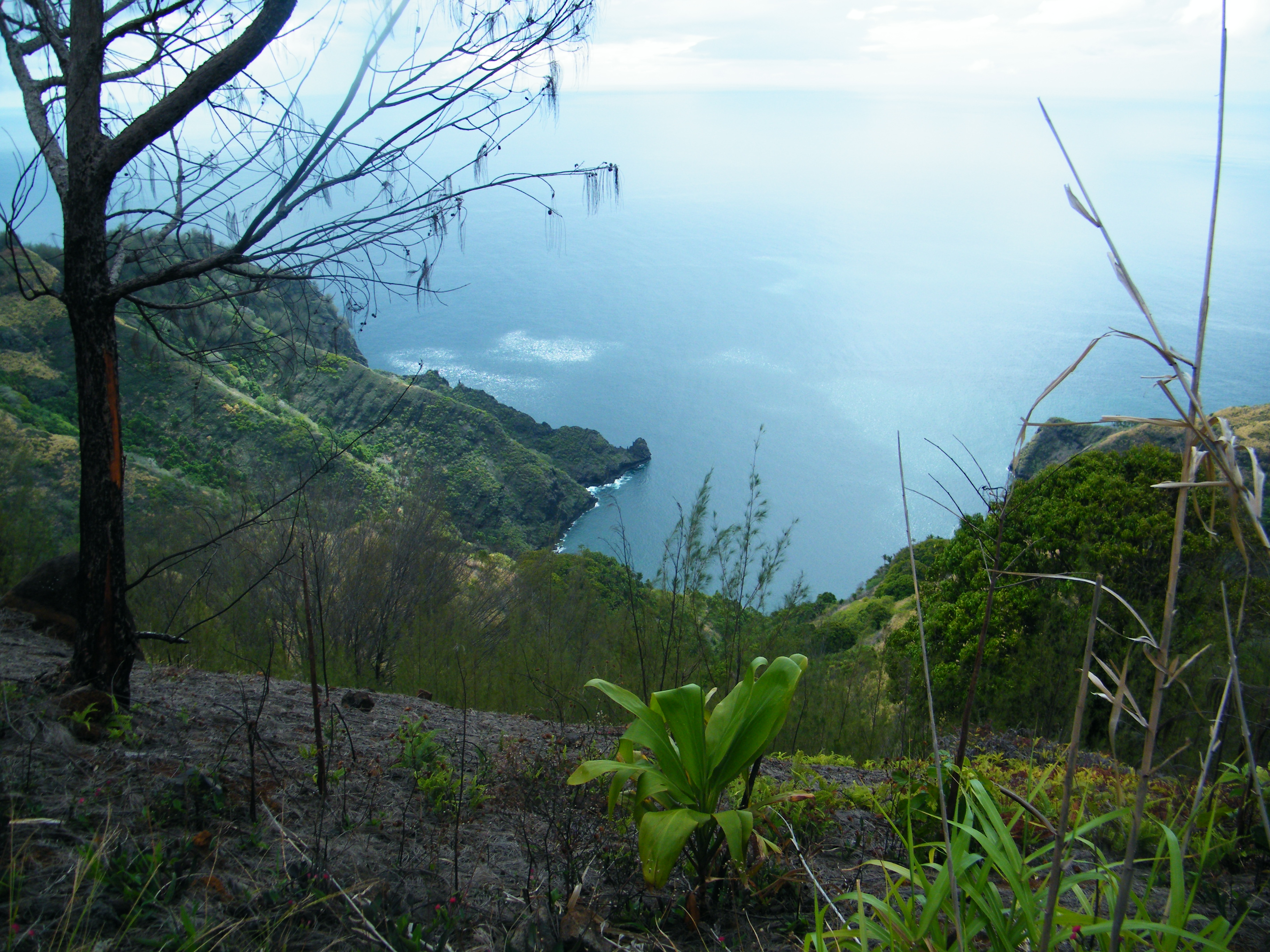 View from the mountains of Tahuata